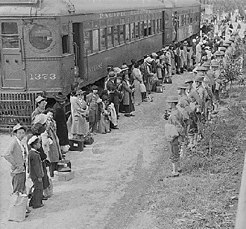 Japanese Americans arrive for Internment processing, from San Pedro at the Pacific Electric Railway (Red Cars) station, in Arcadia, Southern California. Processing occurred at the Santa Anita Assembly Center in the Santa Anita Park Racetrack facilities, from March to October 1942, to receive assignments to remote inland Internment Camps. Those awaiting processing here lived in hastily constructed barracks and in existing stables, with 8,500 in converted horse stalls. U.S. NPS: Santa Anita Assembly Center (webpage).